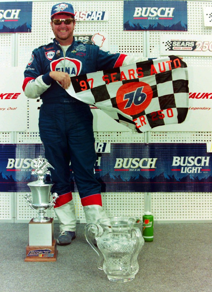 Randy LaJoie celebrates in Victory Lane at The Milwaukee Mile on July 6, 1997, after winning the NASCAR Busch Series Sears Auto Center 250.